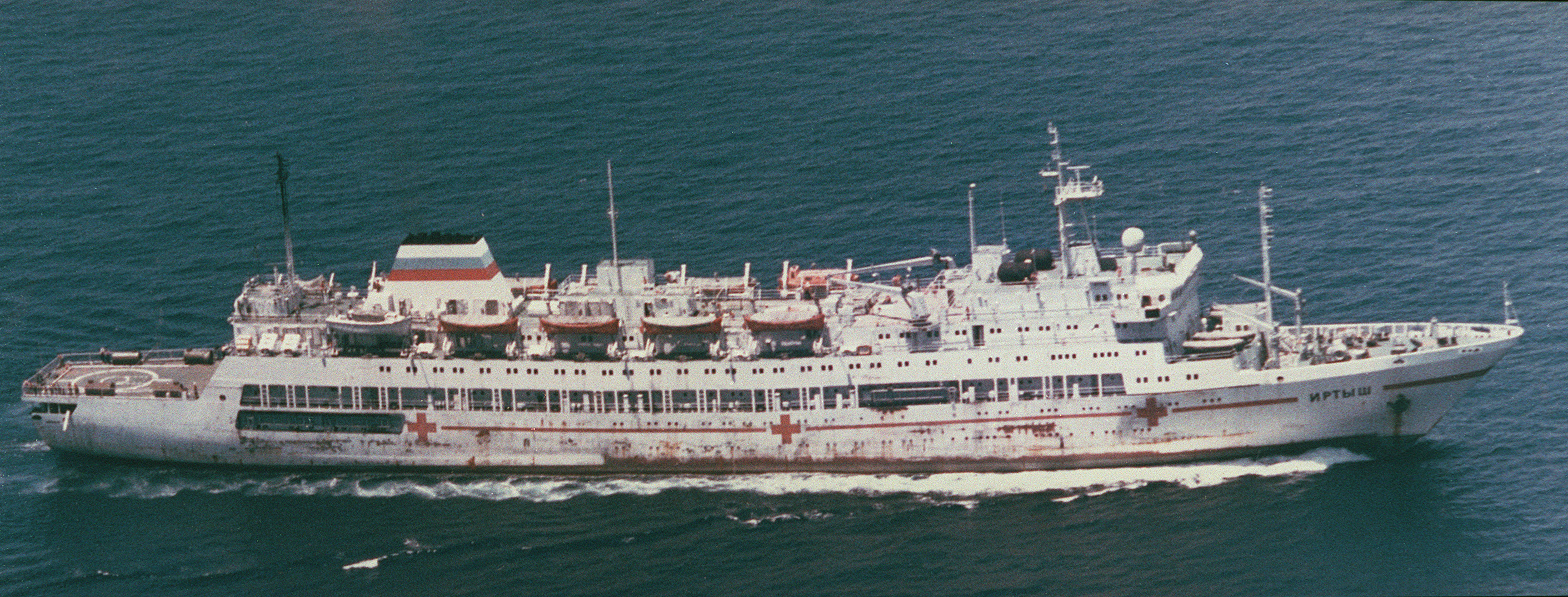 Aerial starboard side view of the Russian Pacific Fleet OB class hospital ship Irtysh underway.